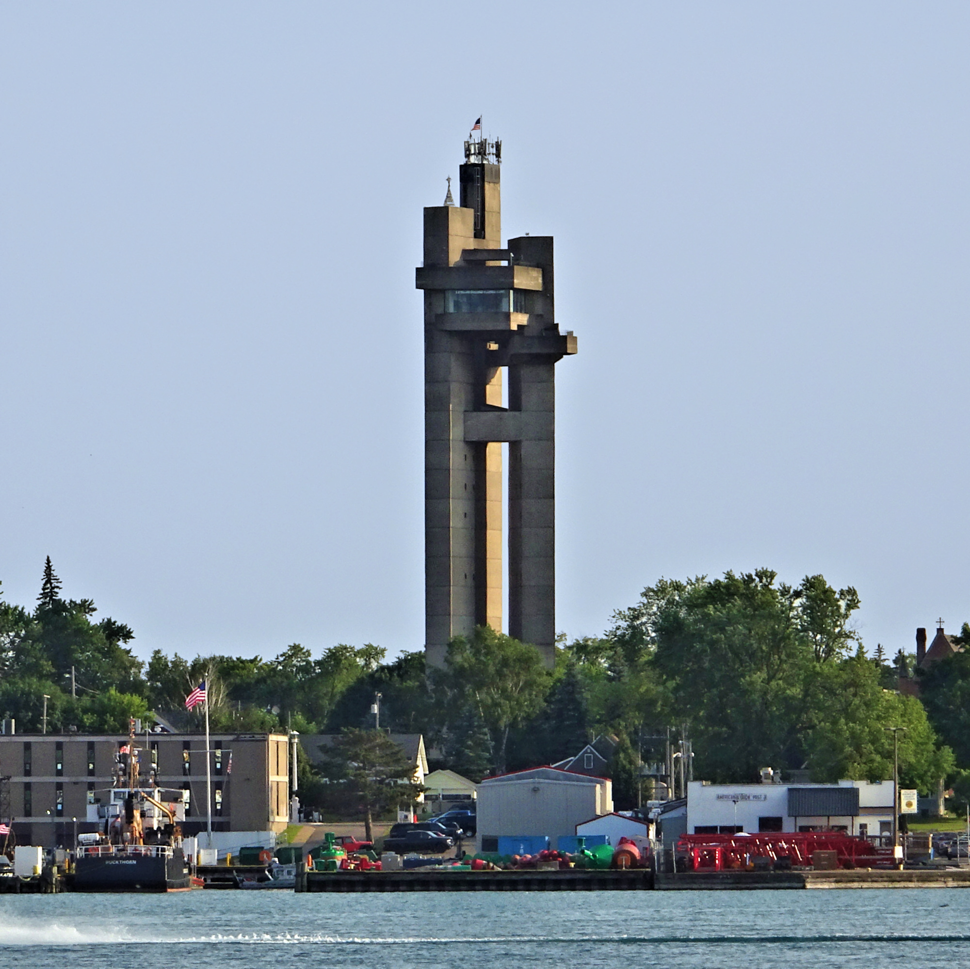 The Tower of History in Sault Ste. Marie, Michigan, United States